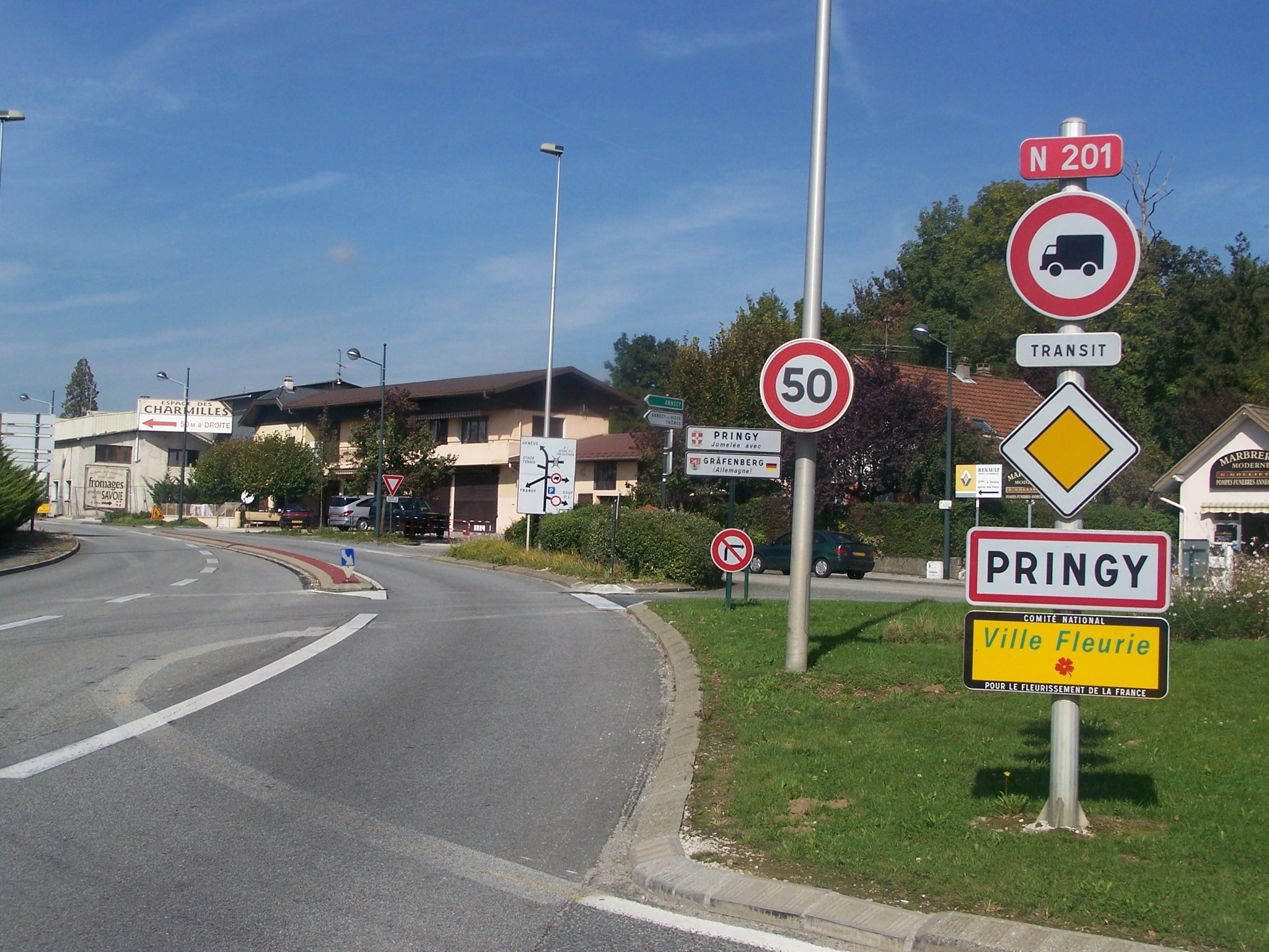 Sign welcoming visitors to the commune of Pringy near Annecy in Haute-Savoie, France.